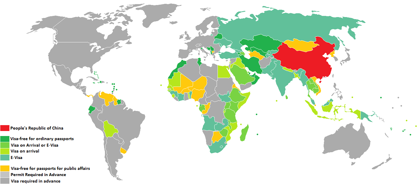 Visa requirements for Chinese citizens holding ordinary and ordinary passports for public affairs and Two-way and Exit & Entry permits